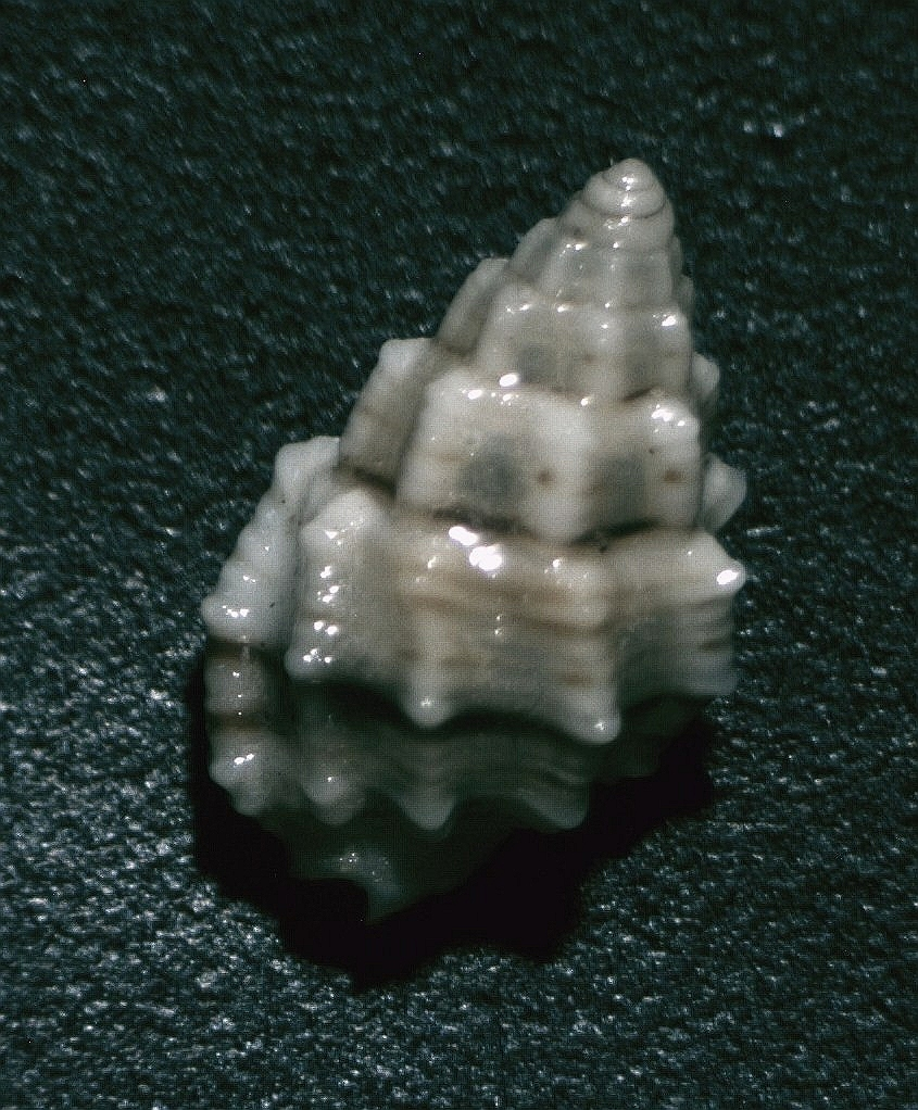 Nassarius echinatus (A. Adams, 1852), a Nassa mud snail from the family Nassariidae; Philippines